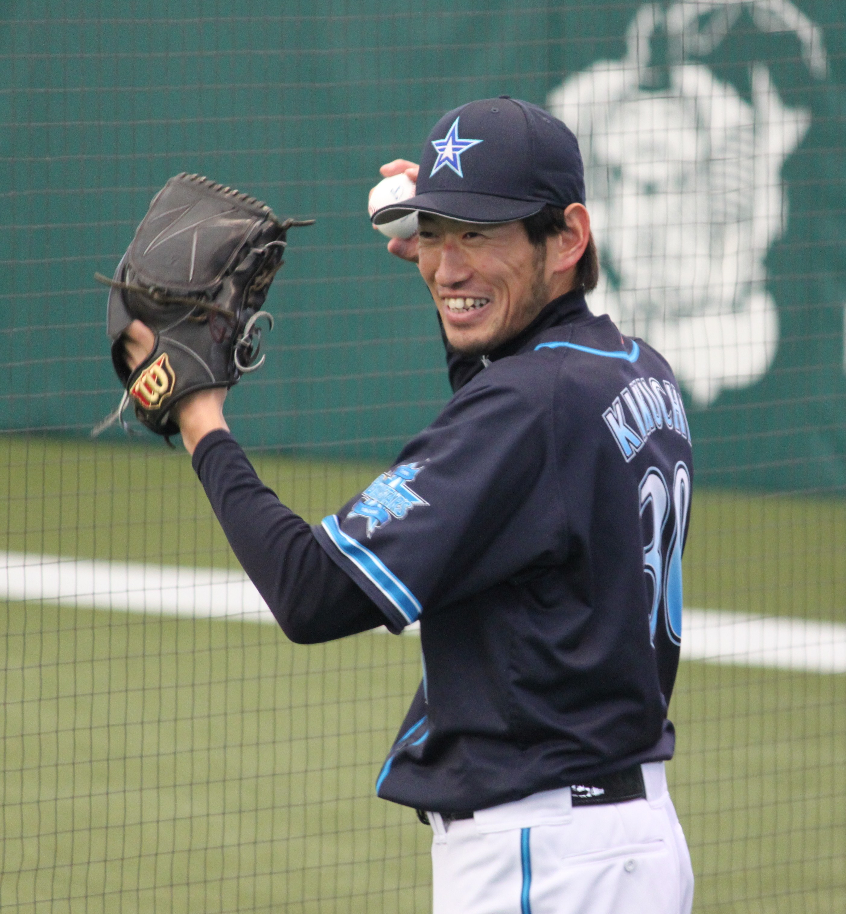 Kazumasa Kikuchi, pitcher of the Yokohama DeNA BayStars, at Seibu Dome.